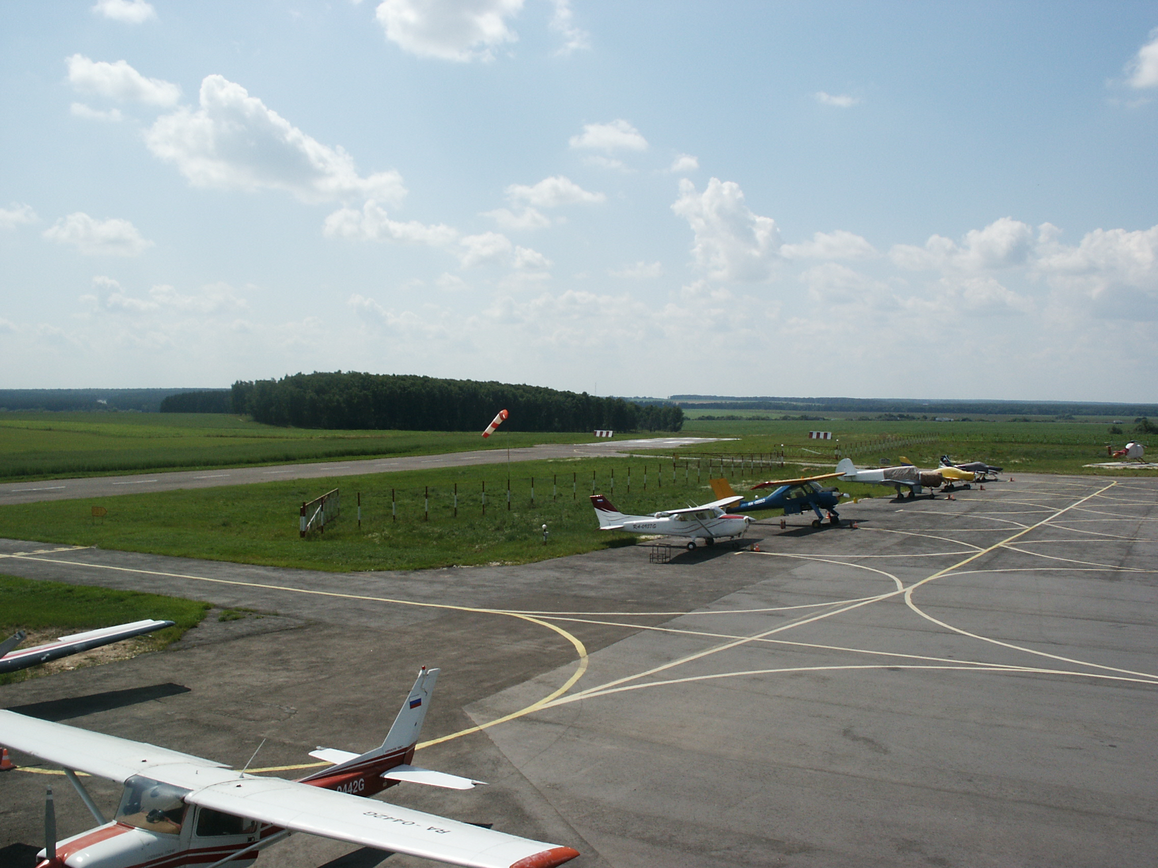 Severka airport taxi ways